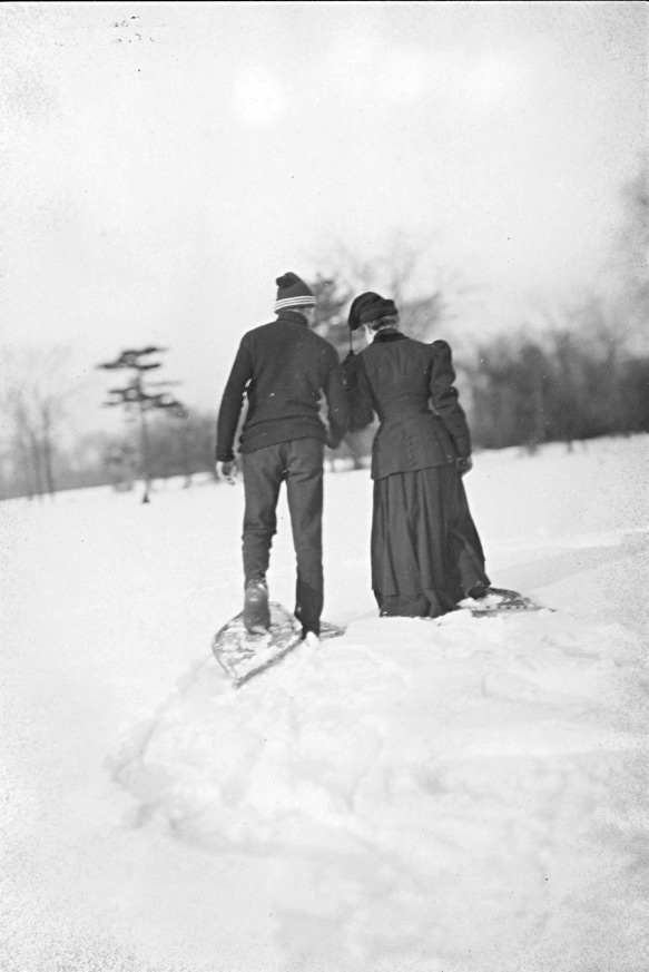 Couple snowshoeing, Toronto, Canada